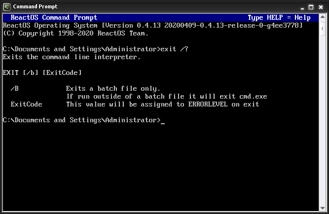 exit command on ReactOS-0.4.13